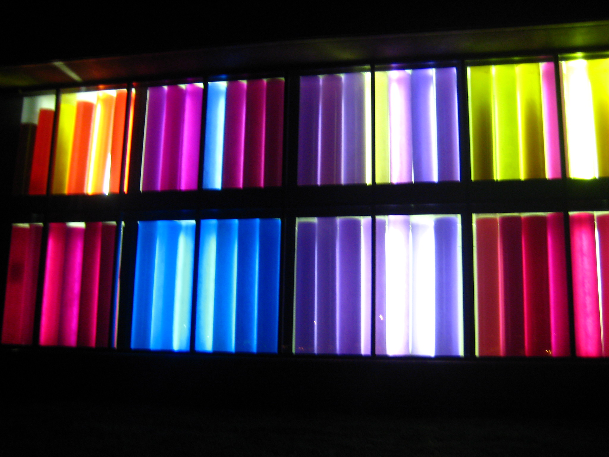 The outside of the Muscarelle Museum of Art at the College of William & Mary in Williamsburg, Virginia, USA during the night.